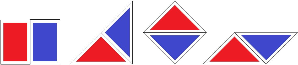 Schemes of rectangular and triangular stamp pairs